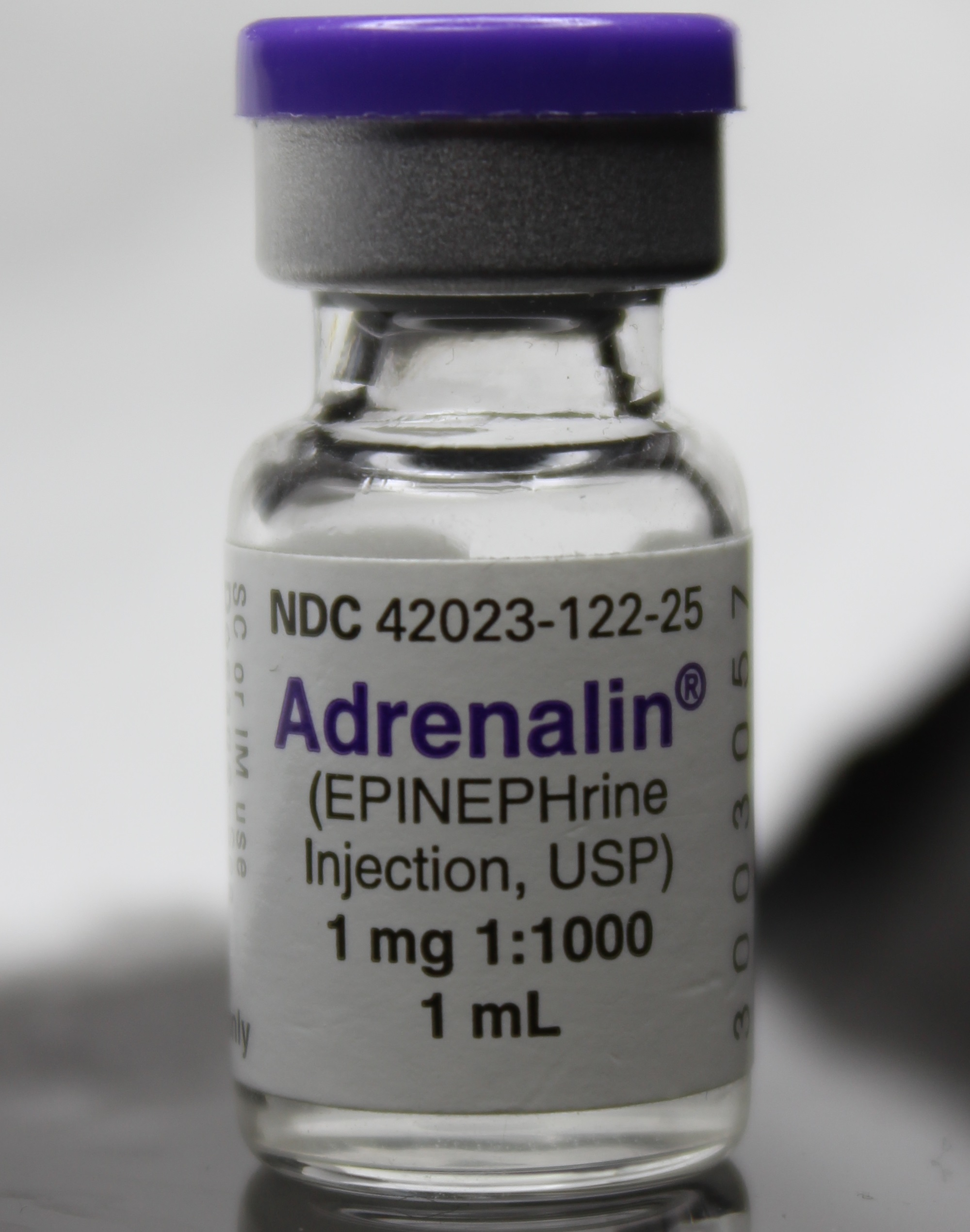 (US) epinephrine vial 1mg